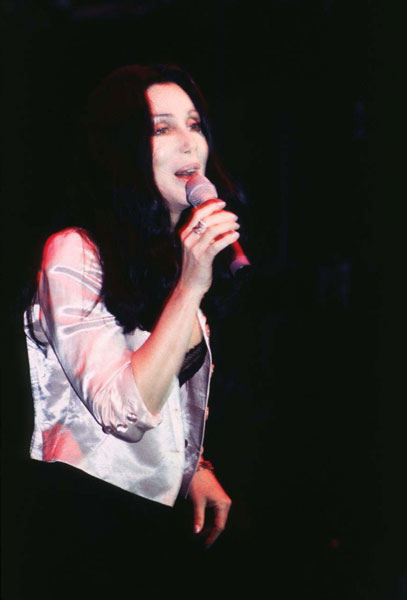 Cher at the WKTU-FM's Last Dance Party. She sang 3 songs and notoriously fell off the stage. Unfortunately I didn't pick that moment. Great lady, though.